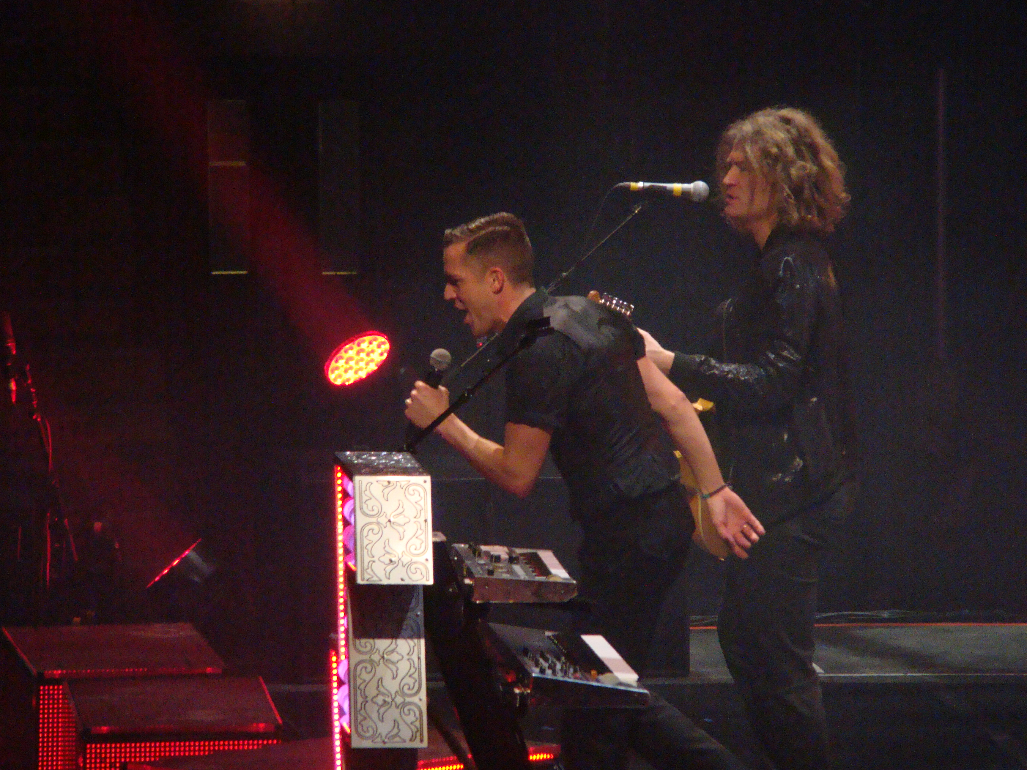 The Killers